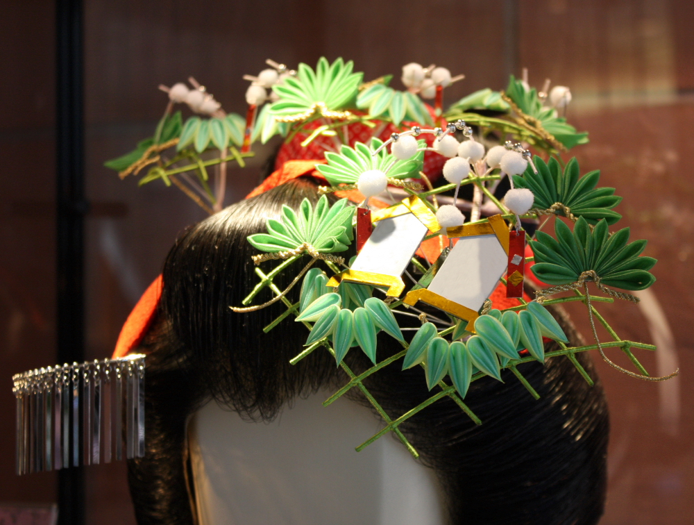 Made by Atelier Kanawa December kanzashi for maiko (geisha apprentice) decorated with pine and Kabuki actors' nameplates. Size: yokozashi (side kanzashi) diameter approx. 5 in = 12.5 cm, maezashi (front kanzashi) 11 in = 26 cm long. Material: Habutae hand-dyed silk (dye by Atelier Kanawa), traditional aluminum hairpin, silk thread, metalic wire, wire, silver beads.